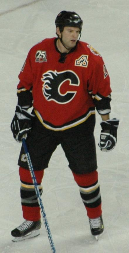 Robyn Regehr of the Calgary Flames, December 21, 2005